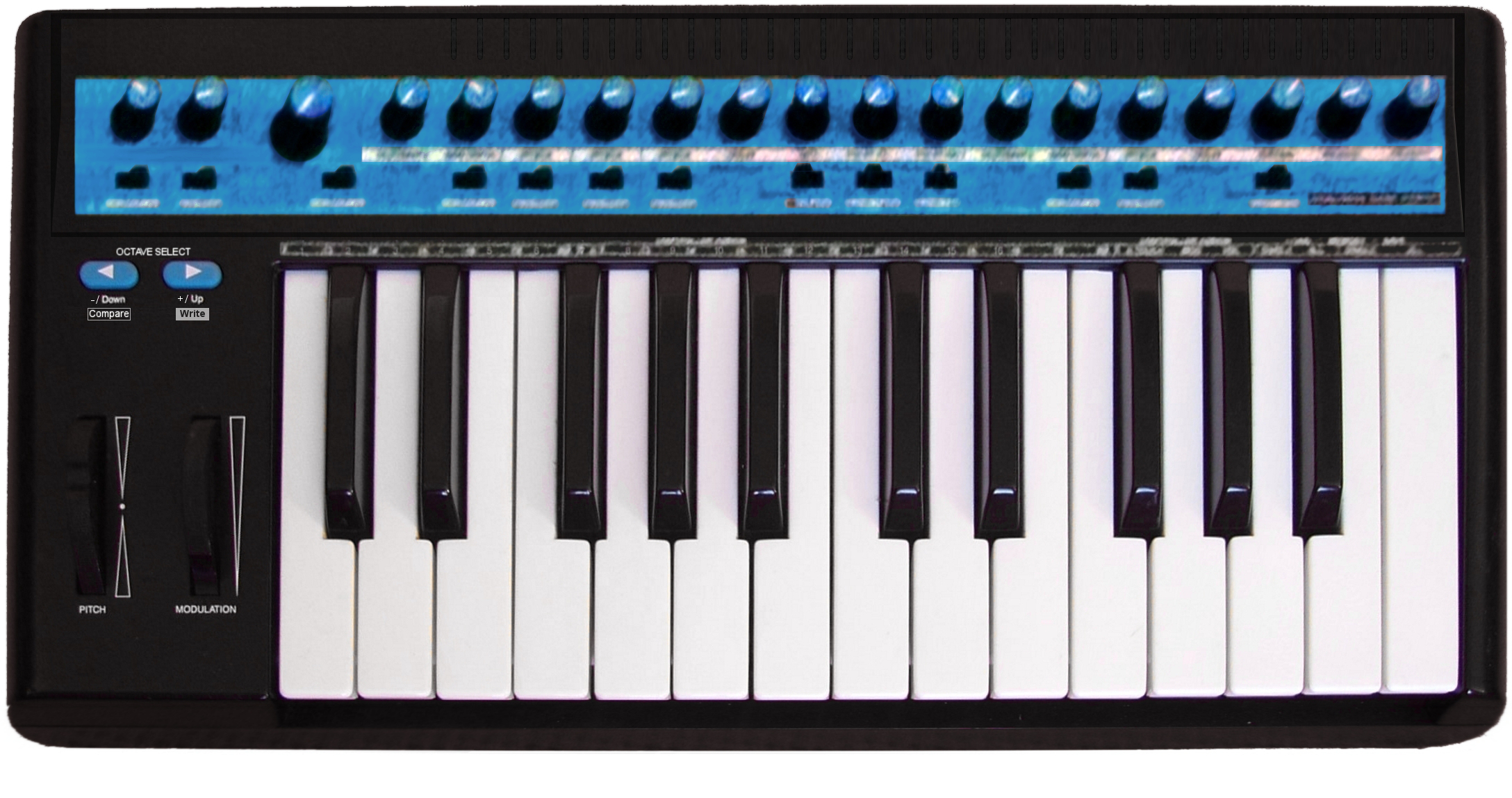 Novation BassStation keyboard (For details, see Owner's Manual)